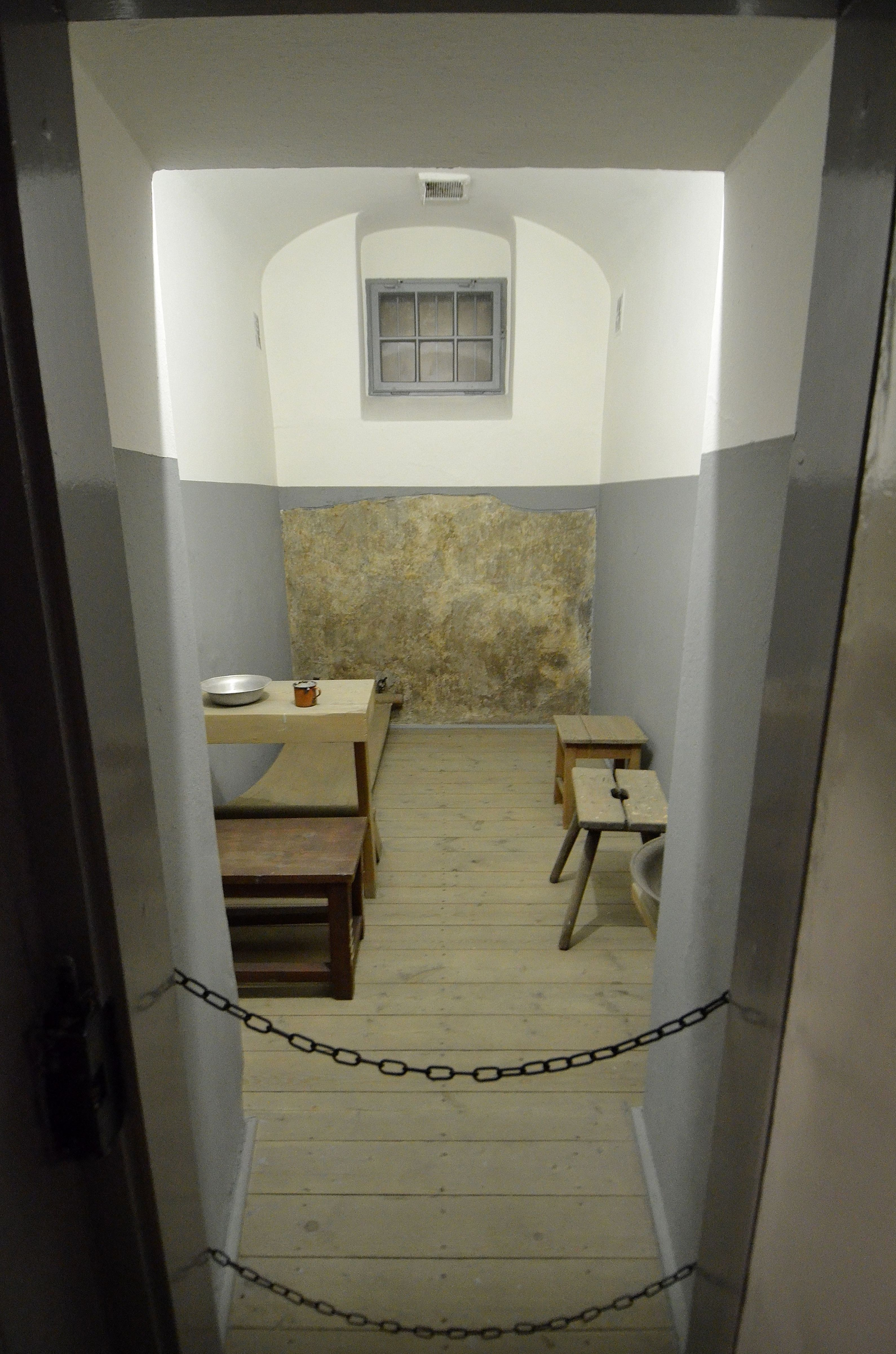 Pawiak Prison Museum